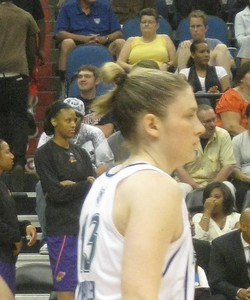 Lindsay Whalen of the Minnesota Lynx